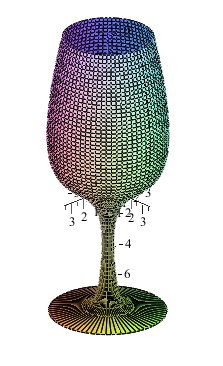 Mathematical parameterisation of a wine glass